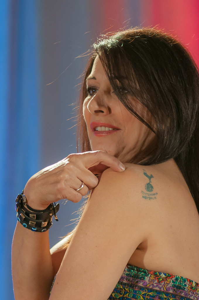 Actress Marina Sirtis shows her Tottenham Hotspur tattoo at the 2012 Phoenix Comicon.